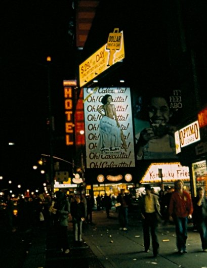 Times Square, New York City, 1981, Billbord for the musical Oh! Calcutta!